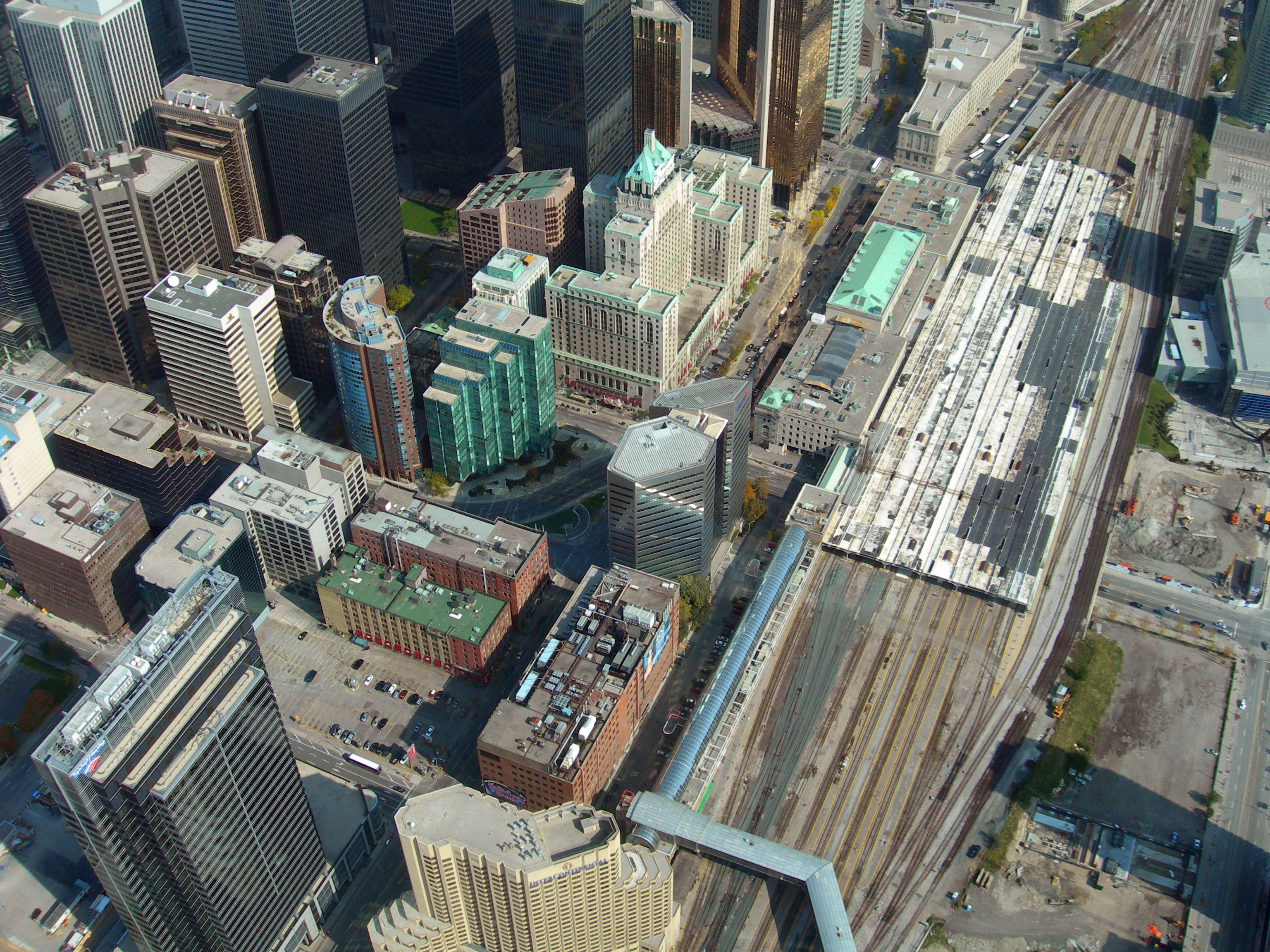 Looking down from the CN Tower with the tracks leading in to Union Station on the right. The building in the upper centre is the Fairmont Royal York Hotel which, at one time, was the tallest building in the Commonwealth. Station And The Royal York)&t=h See where this picture was taken. [?]